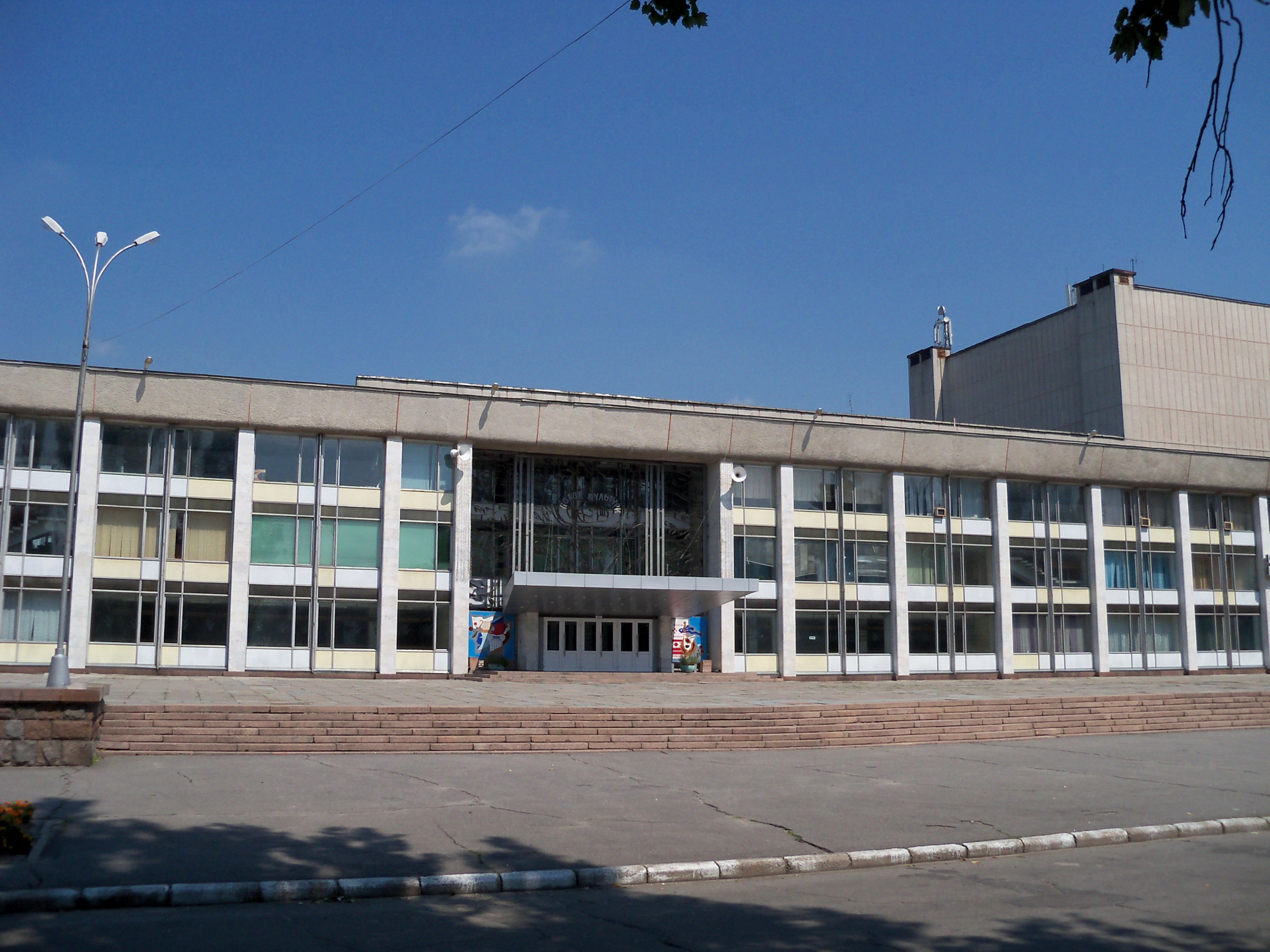 Municipal Palace of Culture in Kremenchuk